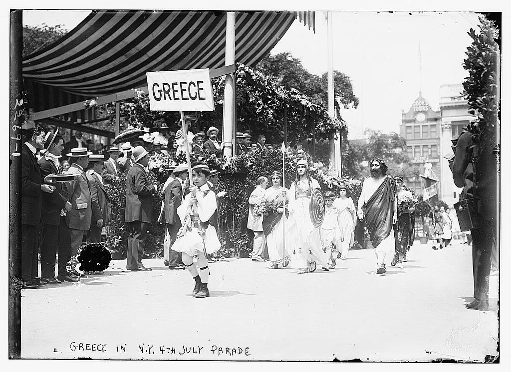 Greeks in NY July 4th parade